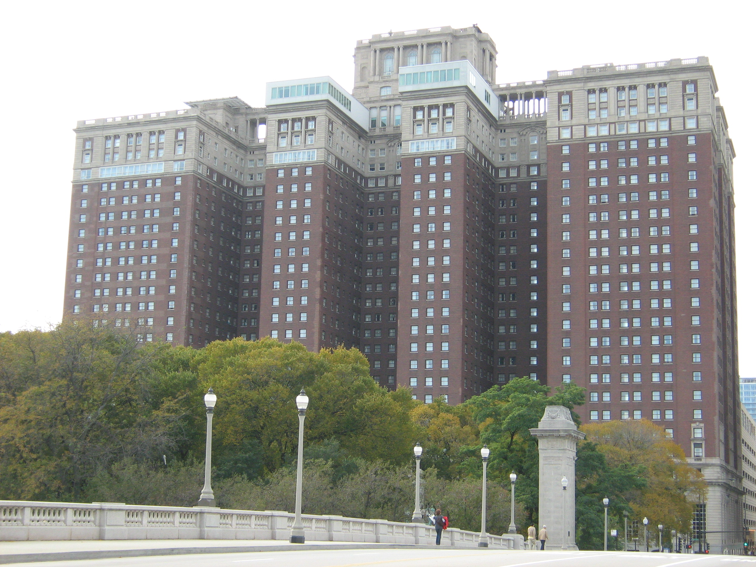 Chicago Hilton Hotel 720 S Michigan Ave Chicago, IL 60605 (312) 922-4400